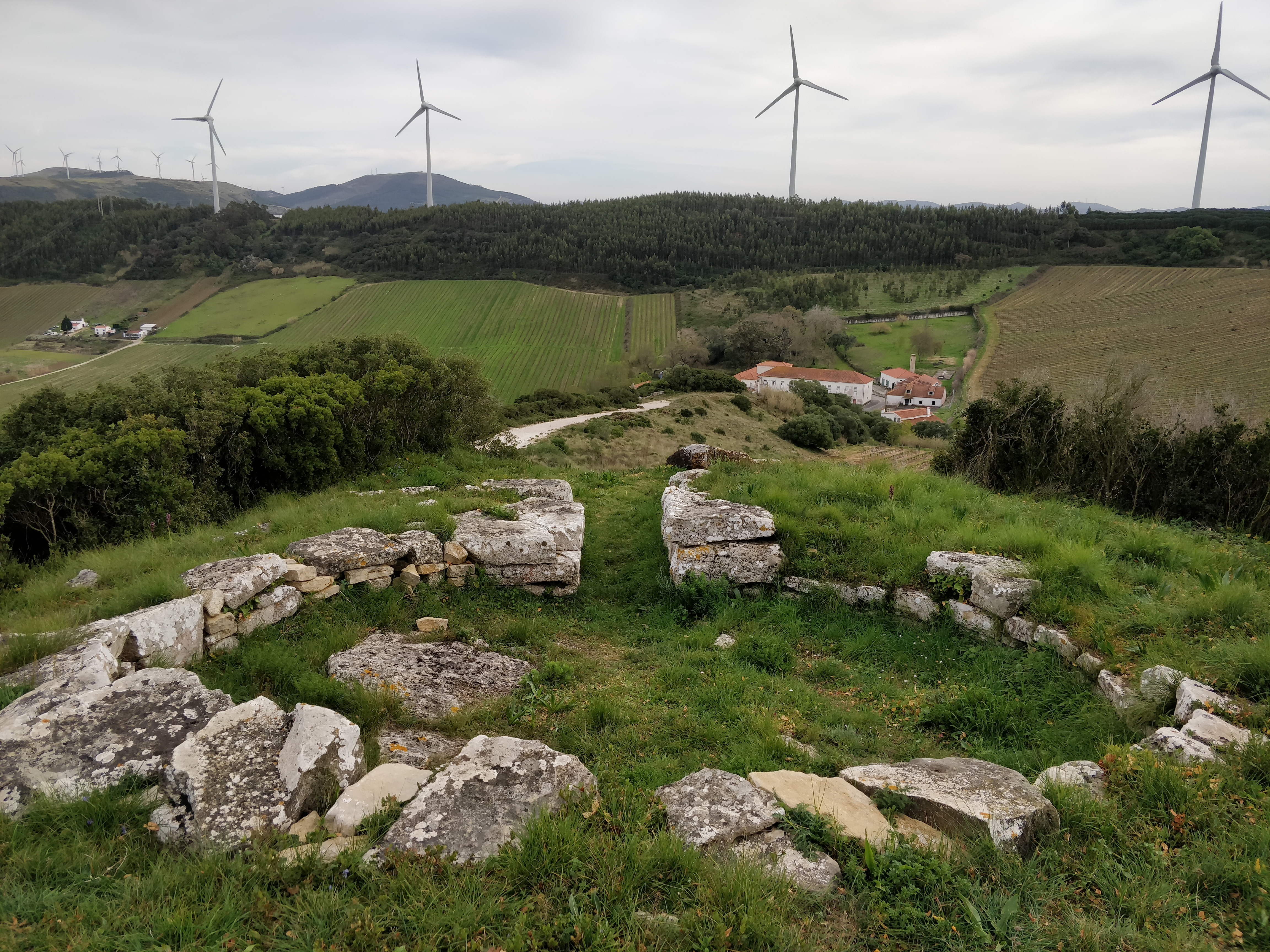 View of the Tholos do Barro, a megalithic tomb near Torres Vedras in Portugal